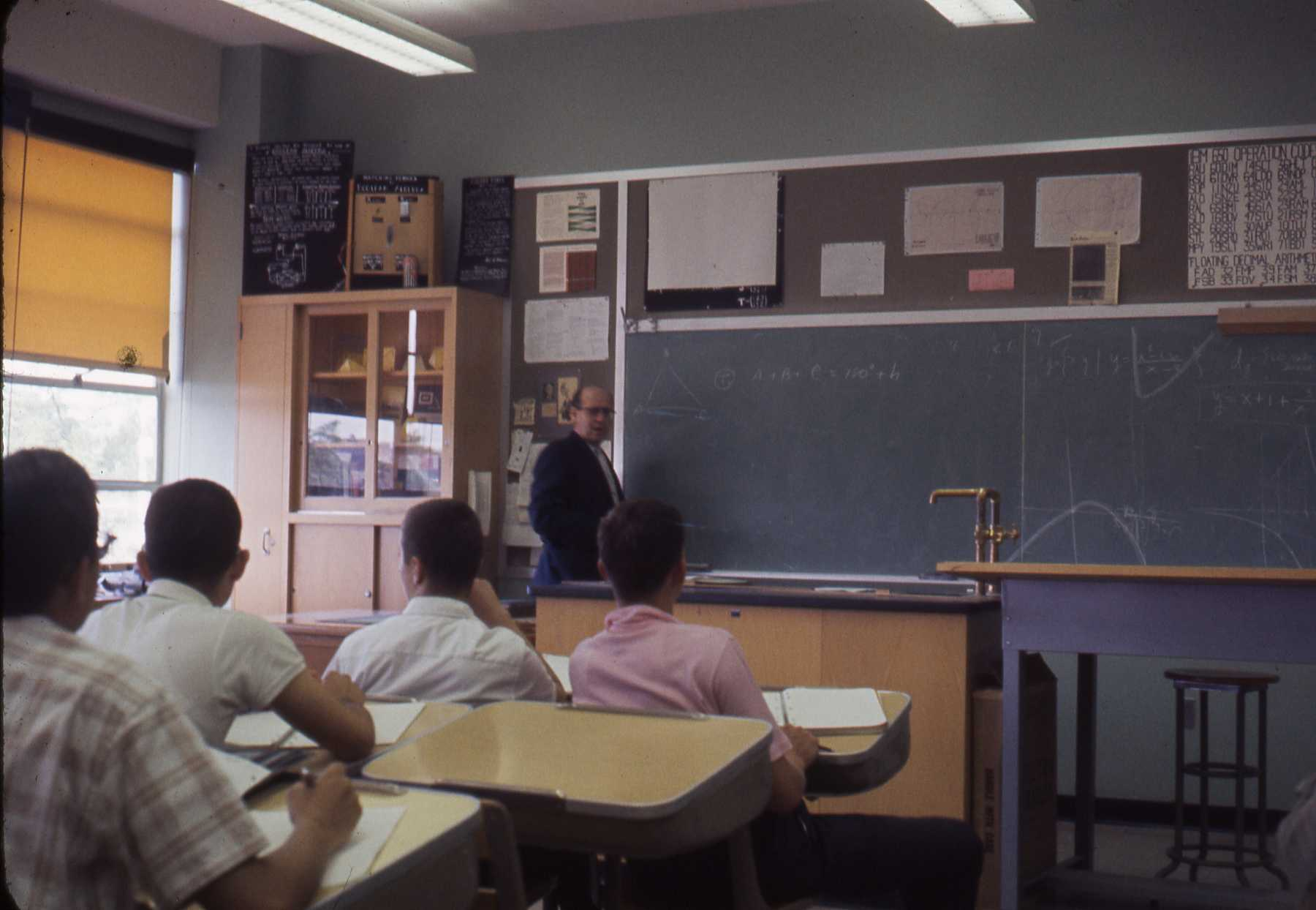 Bronx High School of Science programming class. A chart of operation codes for the IBM 650 is above the blackboard on the right. May 1960.